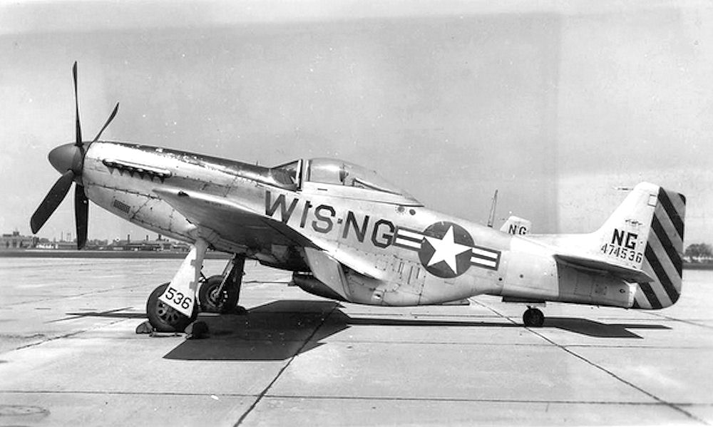 126th Fighter Squadron - North American F-51D-30-NA Mustang 44-74536. Later sold to civilian market as N5452V, N991RC, N991R, converted to unlimited air racer *Miss America*. Still airworthy, apparently rebuilt in 1993 (